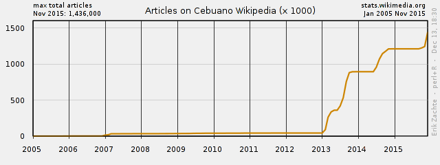 Total articles on Cebuano Wikipedia, PlotTotalArticlesCEB January 2005 - November 2015